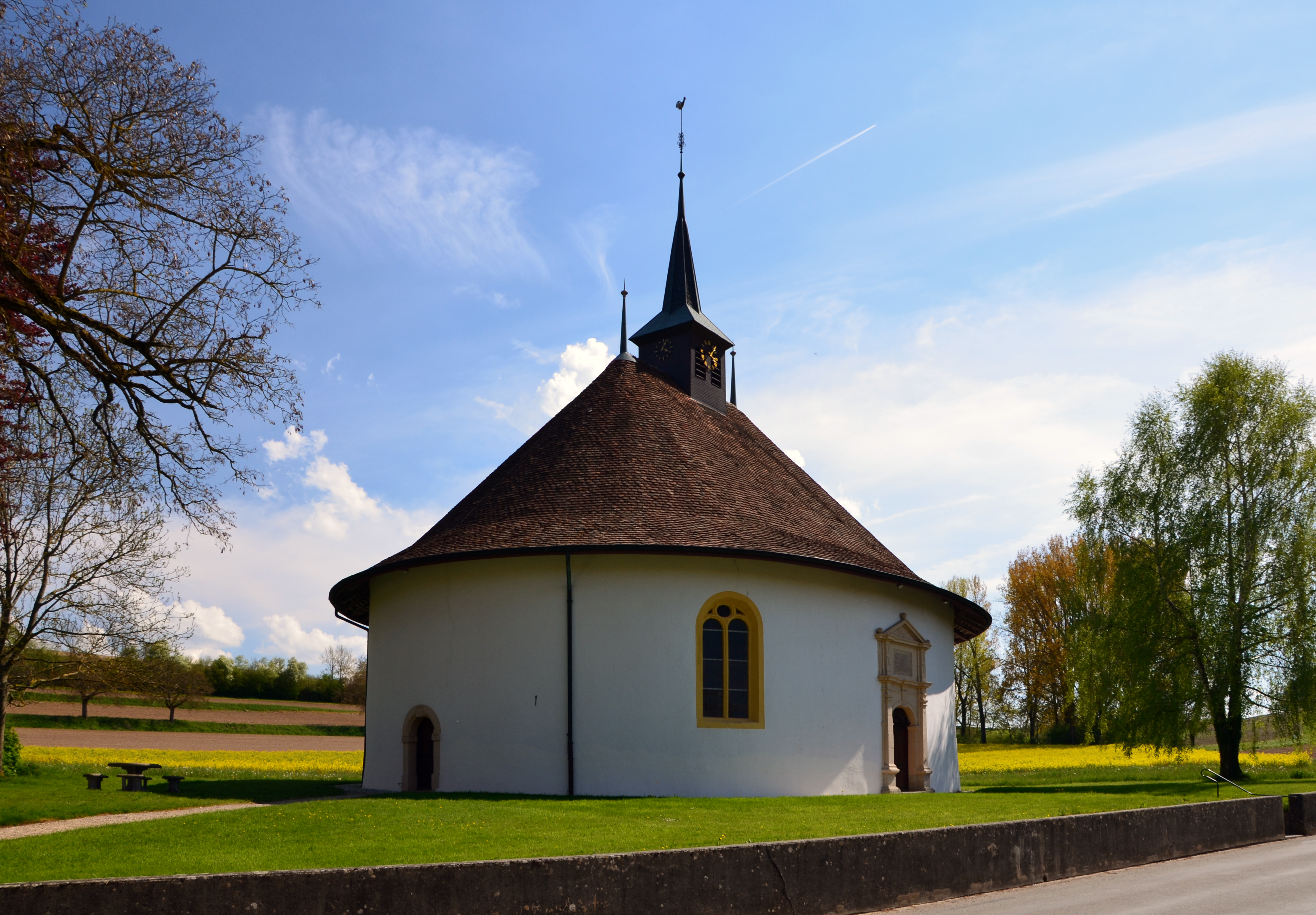 The protestant church of Chêne-Pâquier (canton of Vaud, Switzerland).